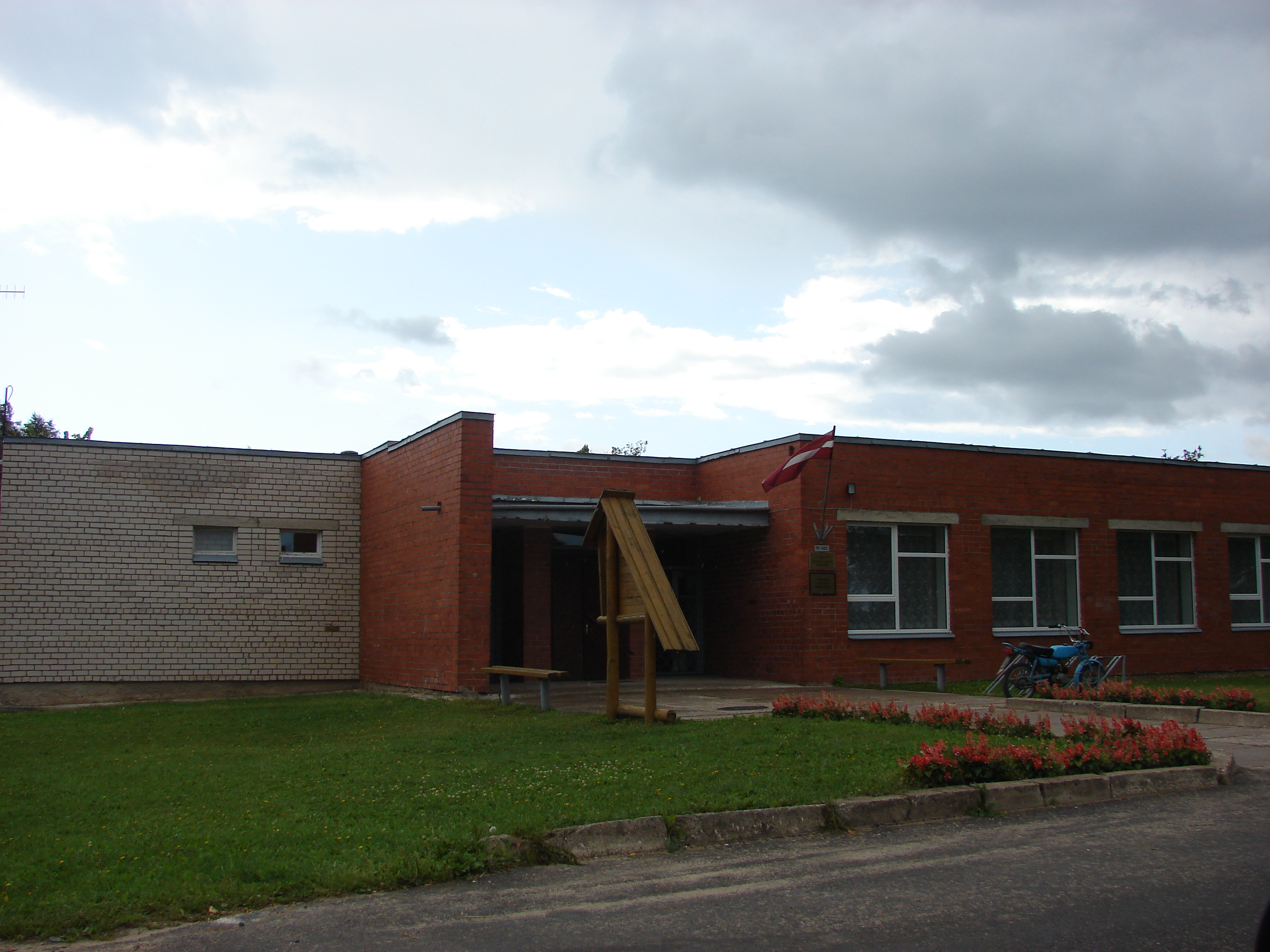 Sokolki parish administration